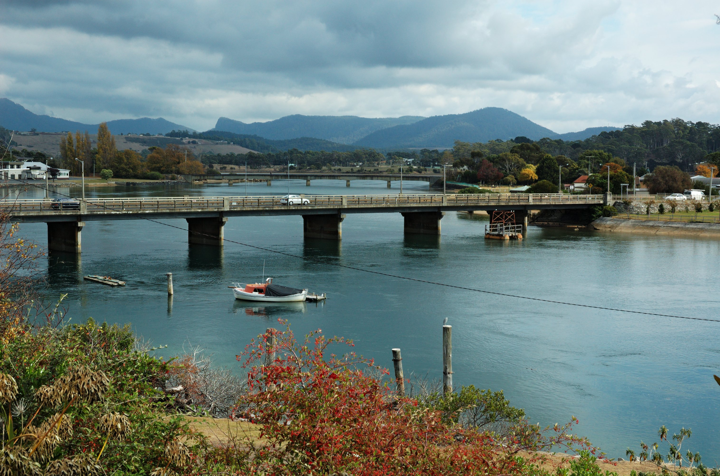 Leven River Bridge (Hobbs Parade), Ulverstone, Tasmania. The bridge was opened in 1934 [1] and demolished in 2011.